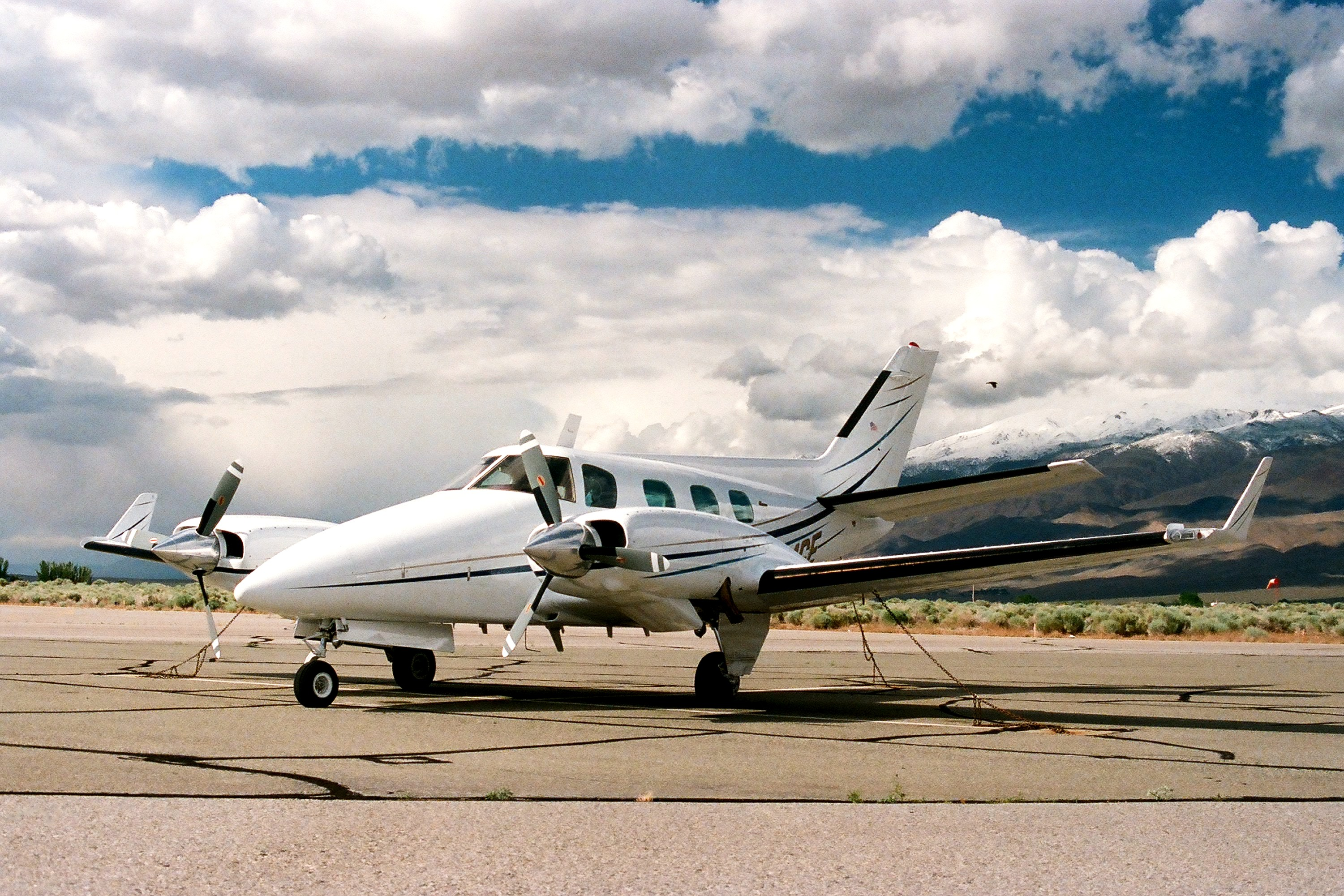 Beechcraft Duke B60 - Bishop, CA